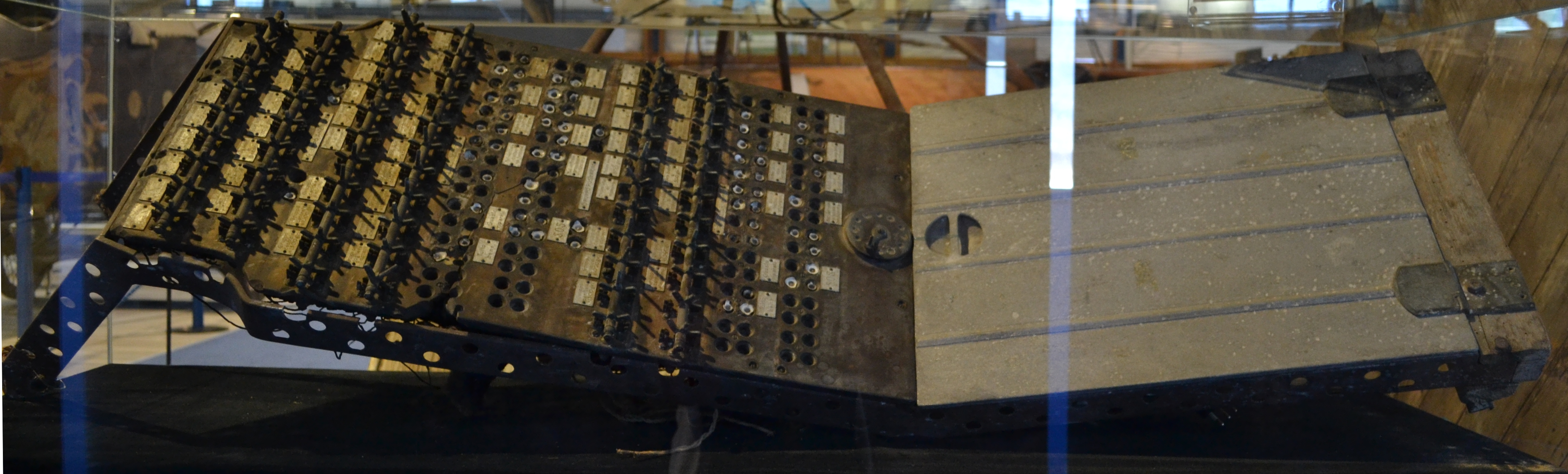 The engine control panel of the Italian transatlantic flying boat Caproni Ca.60 Transaereo, now on display at the museo dell'aeronautica Gianni Caproni in Trento. The switches and lightbulbs on this panel were used by the pilots to communicate orders to the engine technicians (flight engineers) who stood close to the two engine groups (each composed of 4 Liberty L-12 engines) and actually controlled the power settings.